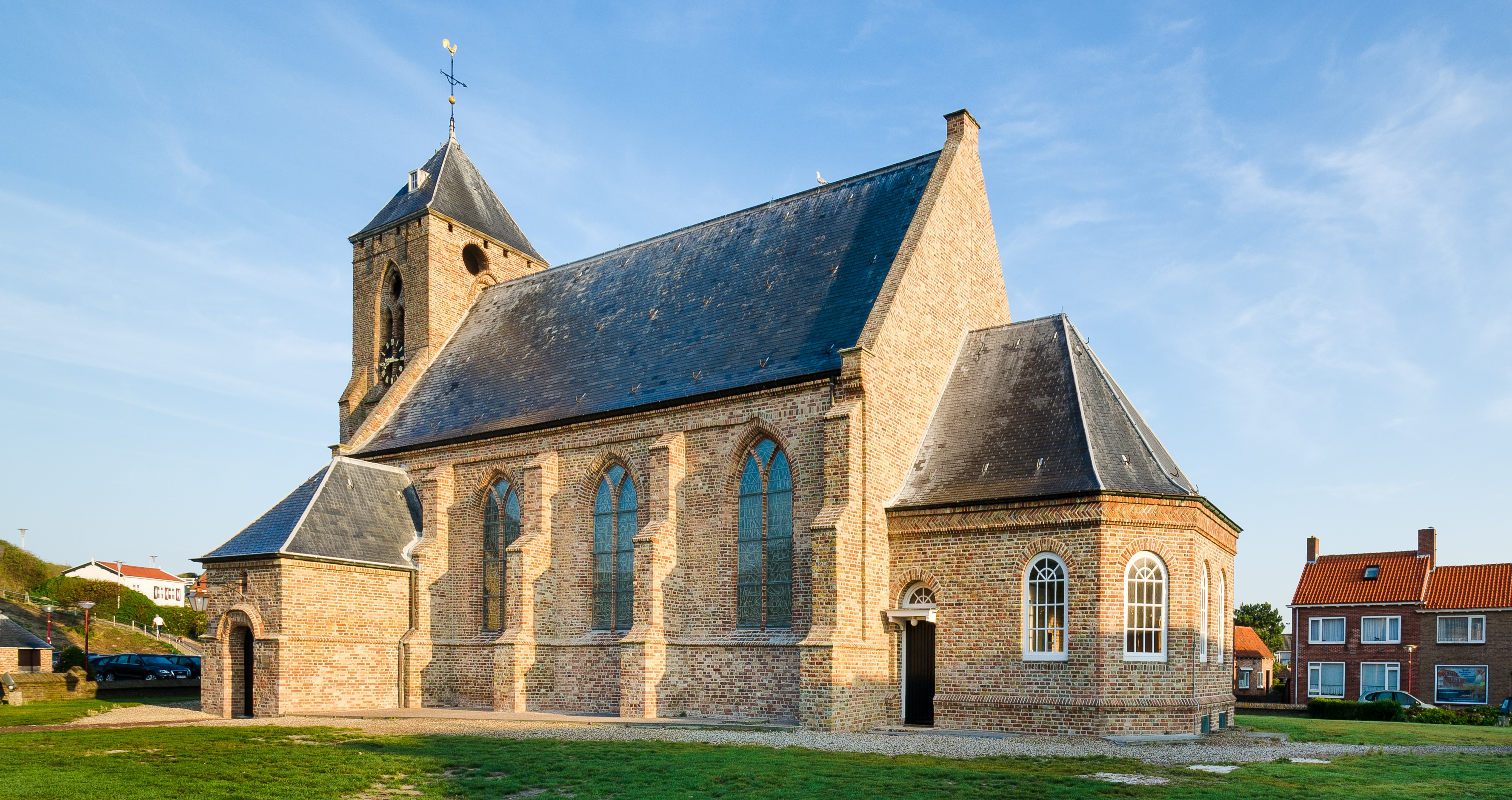 Church of Zoutelande (Catharinakerk)